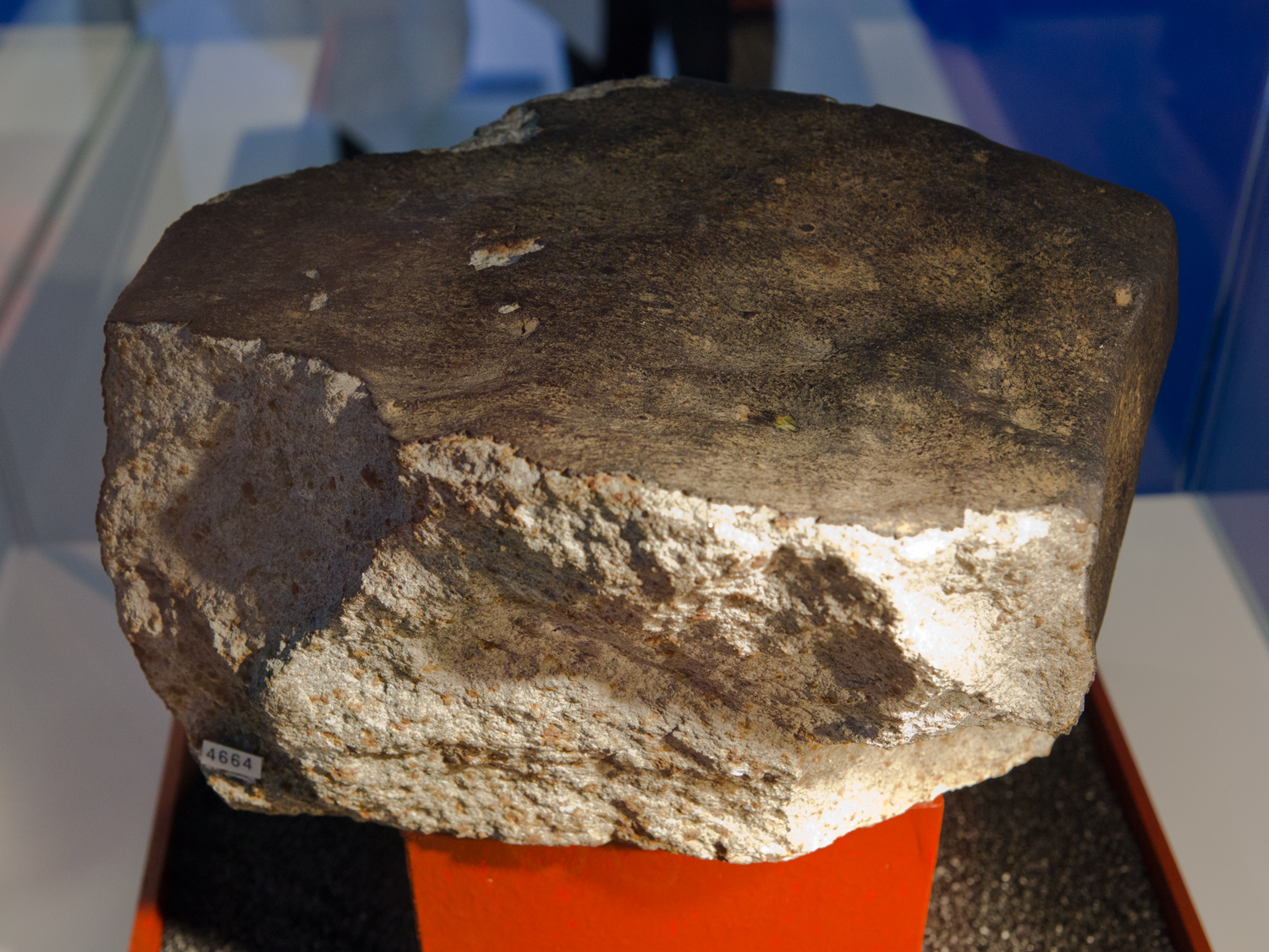 Main mass of the Mauerkirchen meteorite which fell on 1768 November 20, in display at the Munich mineral and gem show, 2012.